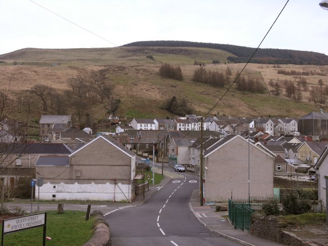 Glyncorrwg village The village of Glyncorrwg used to be a mining village. When the mines closed in the late 20th century the village went into decline, but has recently seen an unexpected surge in tourism. This is due to the spectacular geography around the area. Not for scenery, but because it has been realised as one of the top 10 mountain biking locations in the world and the building of the nearby mountain biking centre has helped this surge.